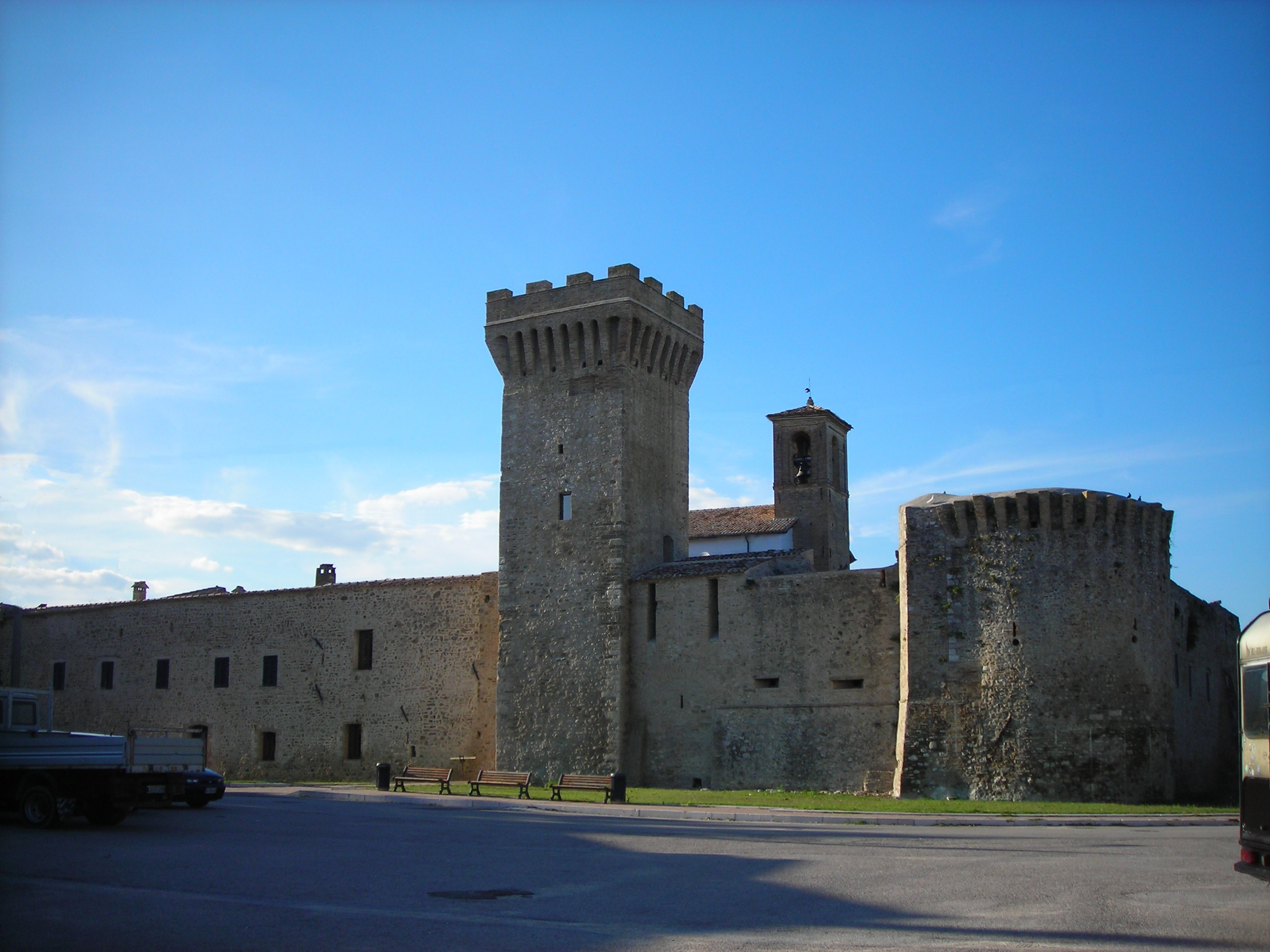 Tower of Castel San Giovanni, Castel Ritaldi, Perugia, Umbria, Italy